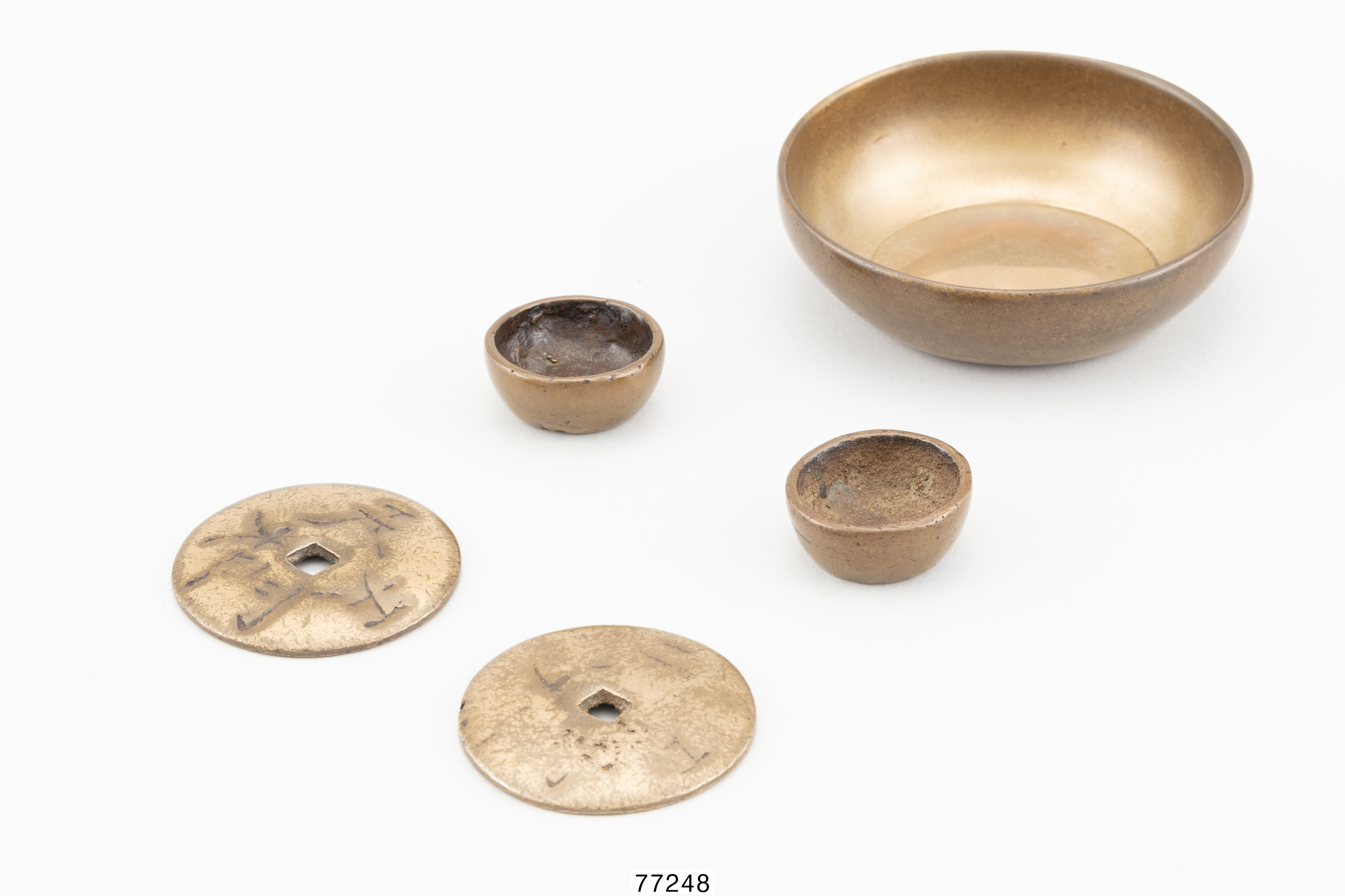 Divination implements of Jeju shaman Hong Su-il